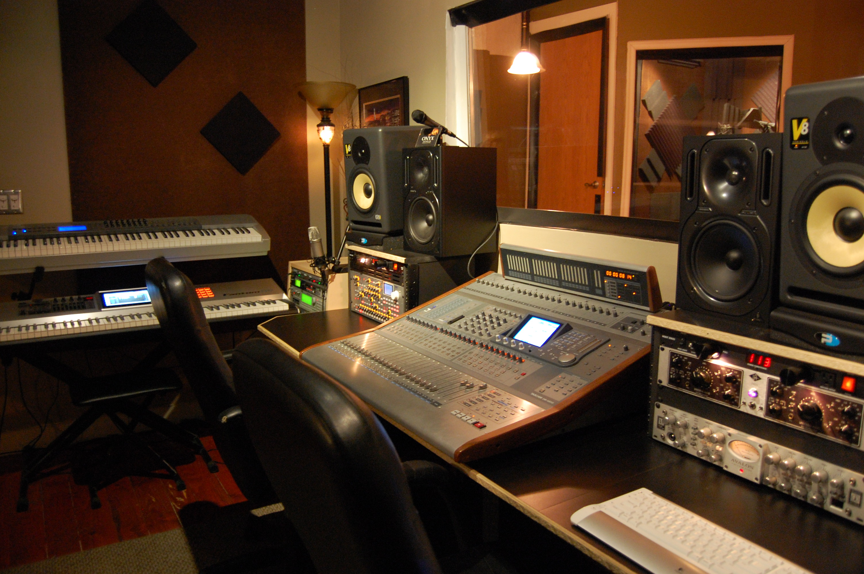 Onyx Soundlab LLC